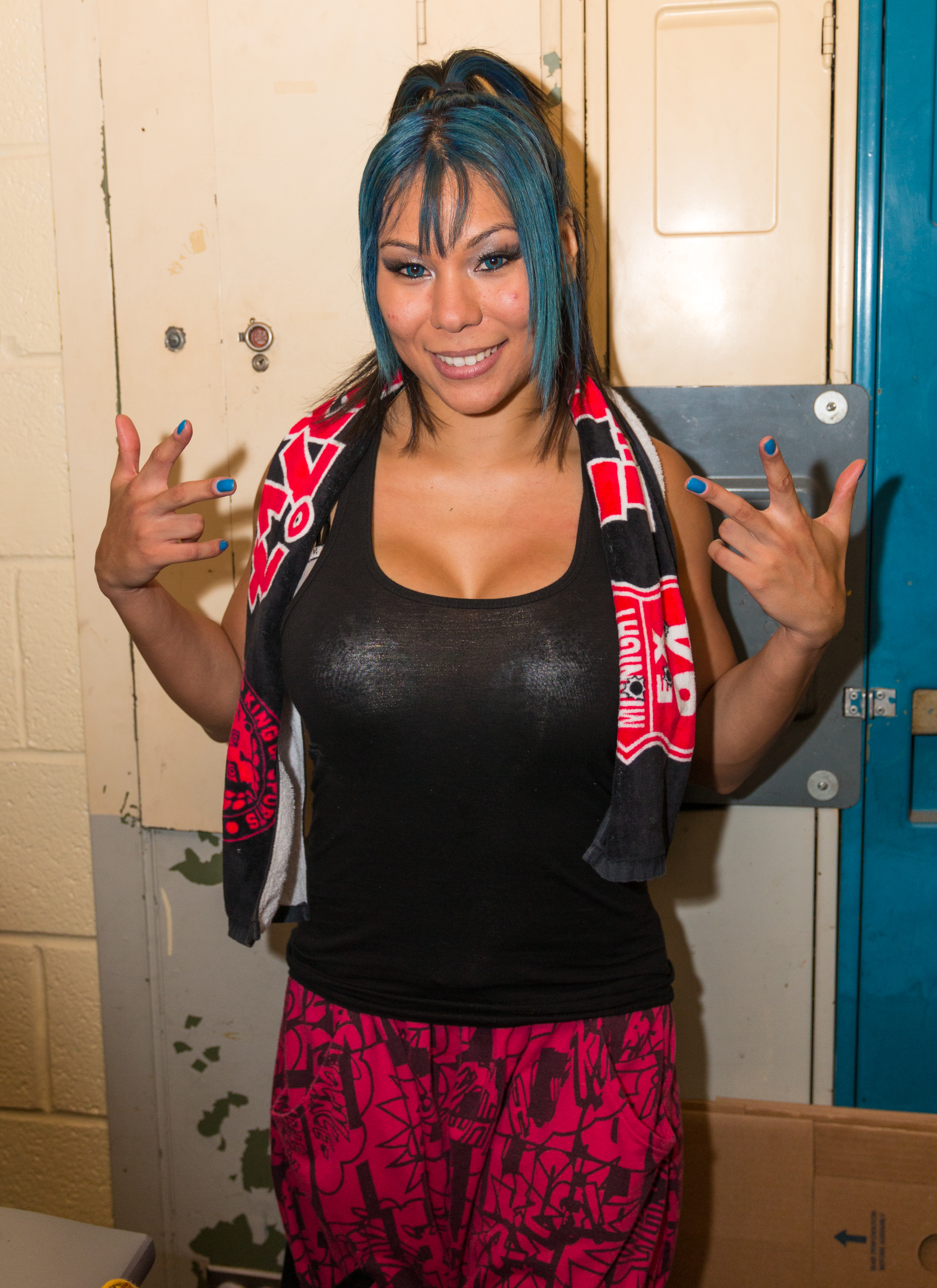 Wrestler Mia Yim (aka Jade in TNA) posing at intermission at Smash Wrestling's Canusa 2016 show in Etobicoke, ON